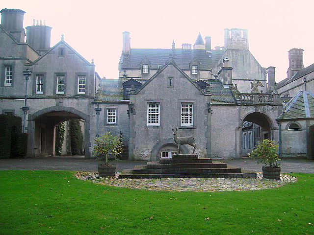 Innes House